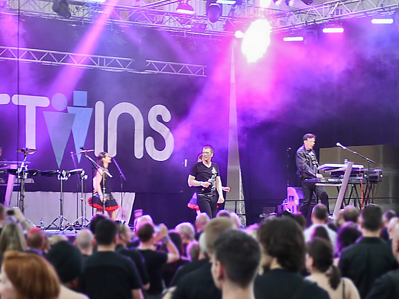 The Twins in concert WGT 2011 Lipsia